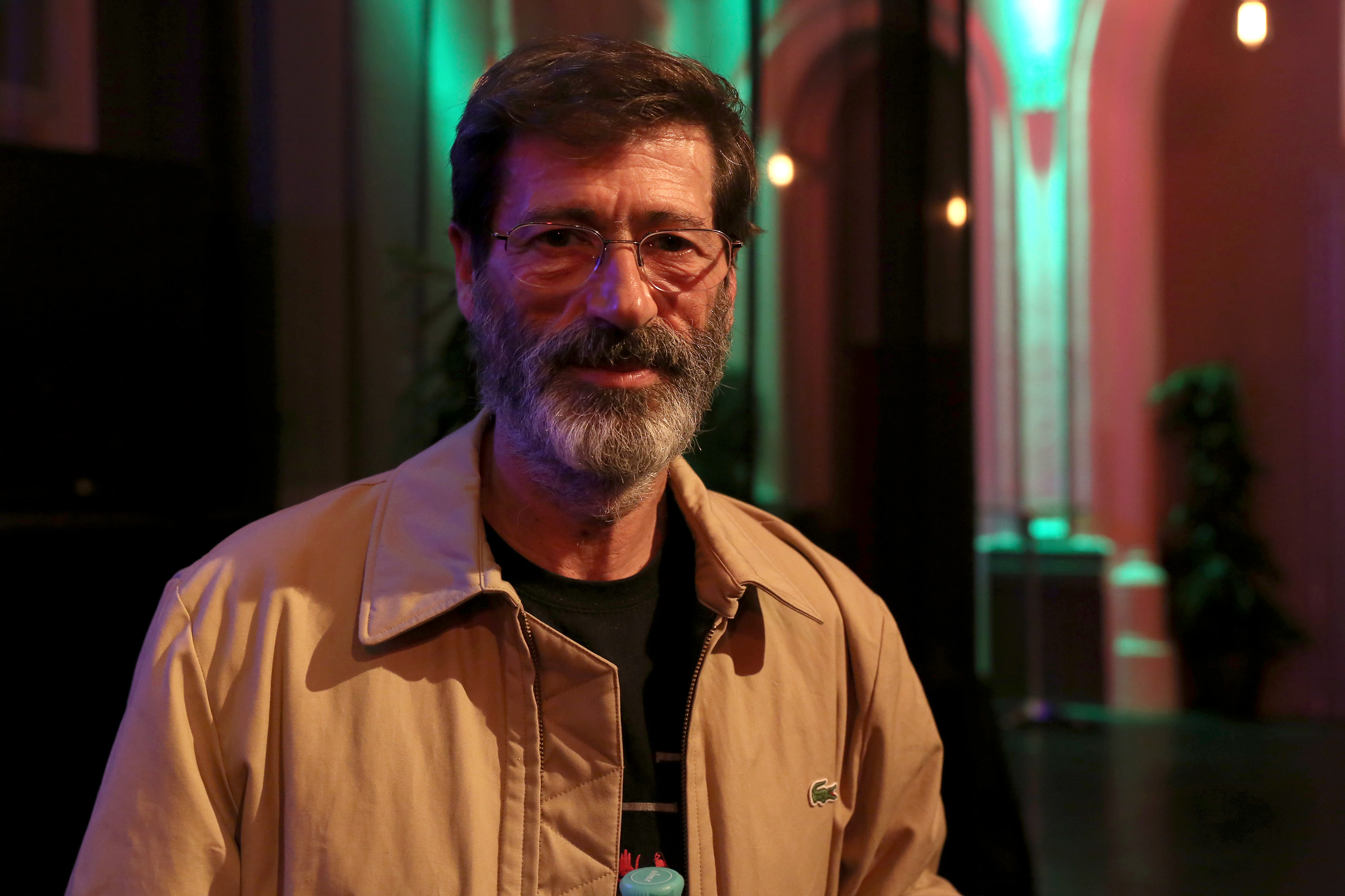 Vienna International Film Festival 2013: Alan Berliner, Joaquim Pinto, Neil Young and Juri Rechinsky discuss Forms of the Documentary (festival center in the building of Austrian Postal Savings Bank, Vienna, Austria).